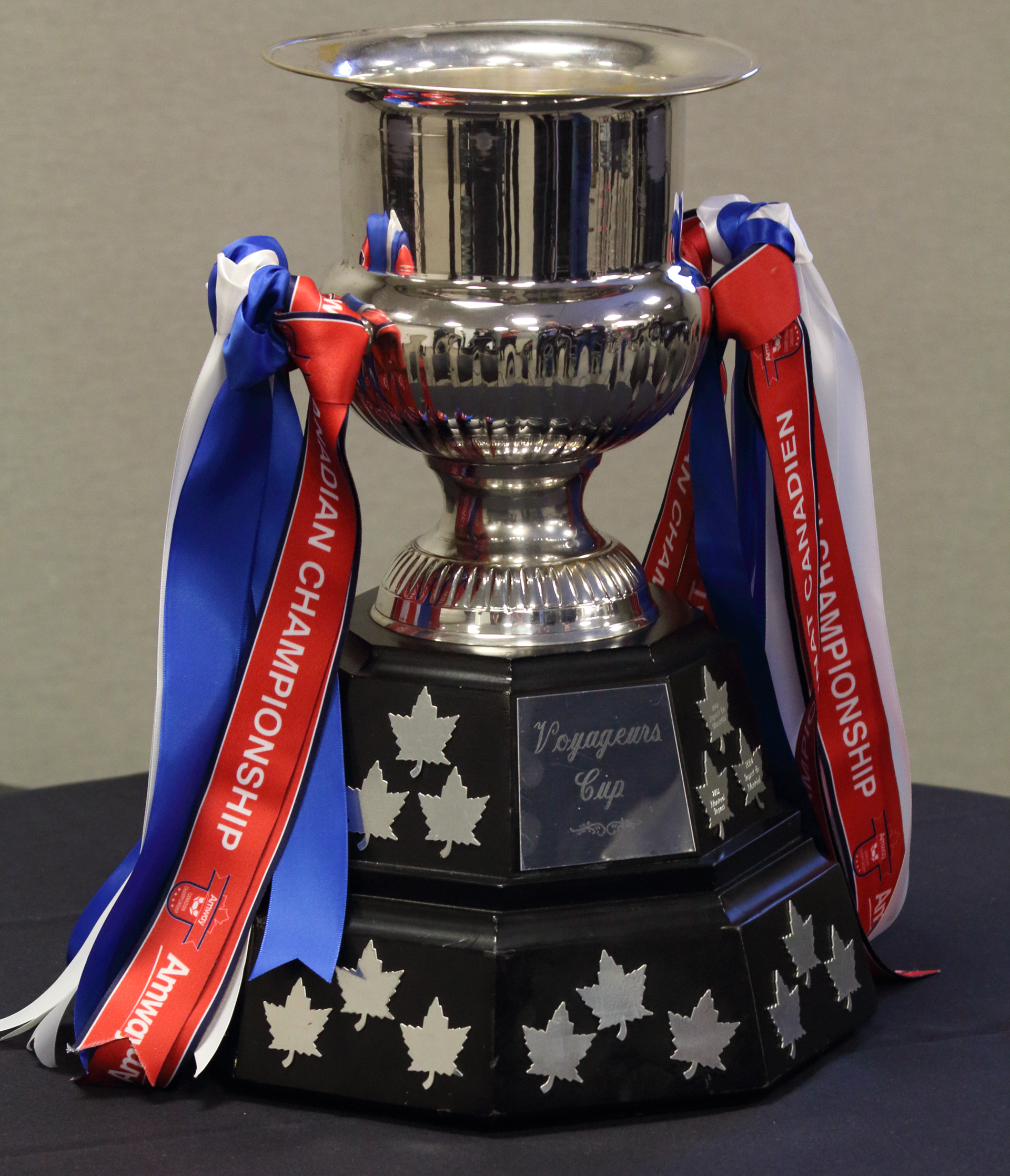 The Voyageurs Cup, trophy of the Canadian [Soccer] Championship, at BC Place on May 29, 2013. Own work.